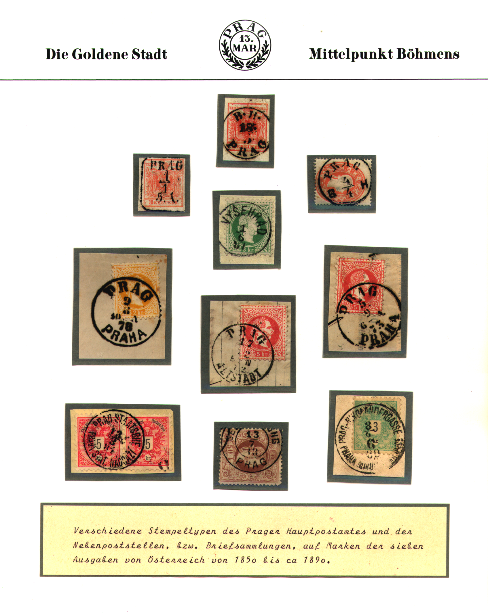 Stamp album page of several different postmarks of Prag/Praha/Prague used on stamps of the Austro-Hungarian Empire between 1850 and 1888. All the stamps are more than 100 years old - can be used to illustrate the topic of Marcophily, i.e., the study of postmarks